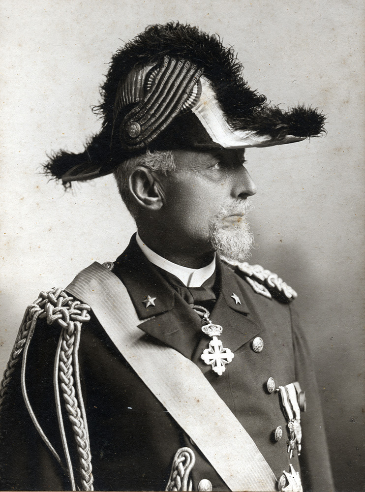 Senator Admiral Marchese Marcello Amero d'Aste Stella